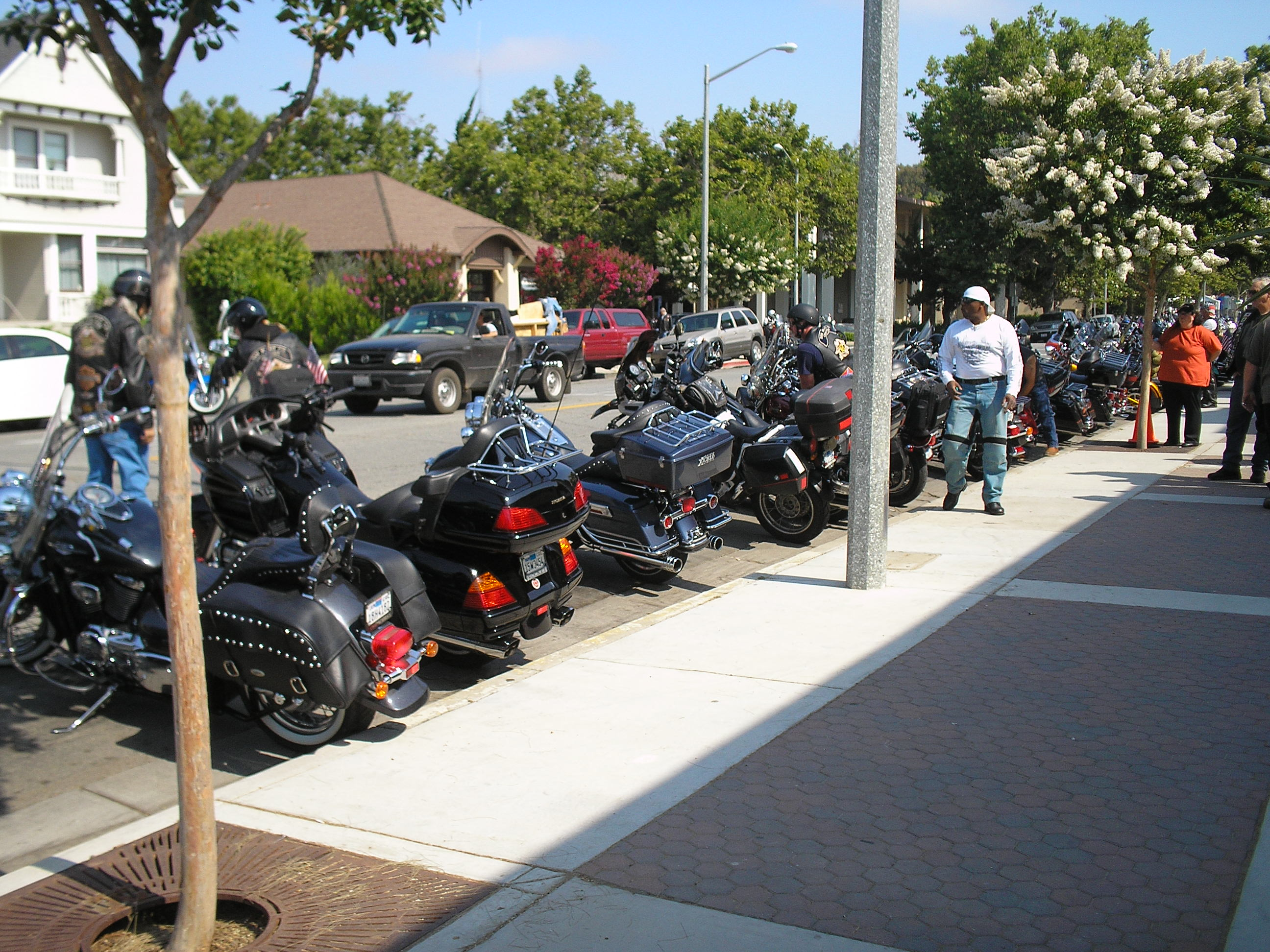 July 2008 Hollister Rally